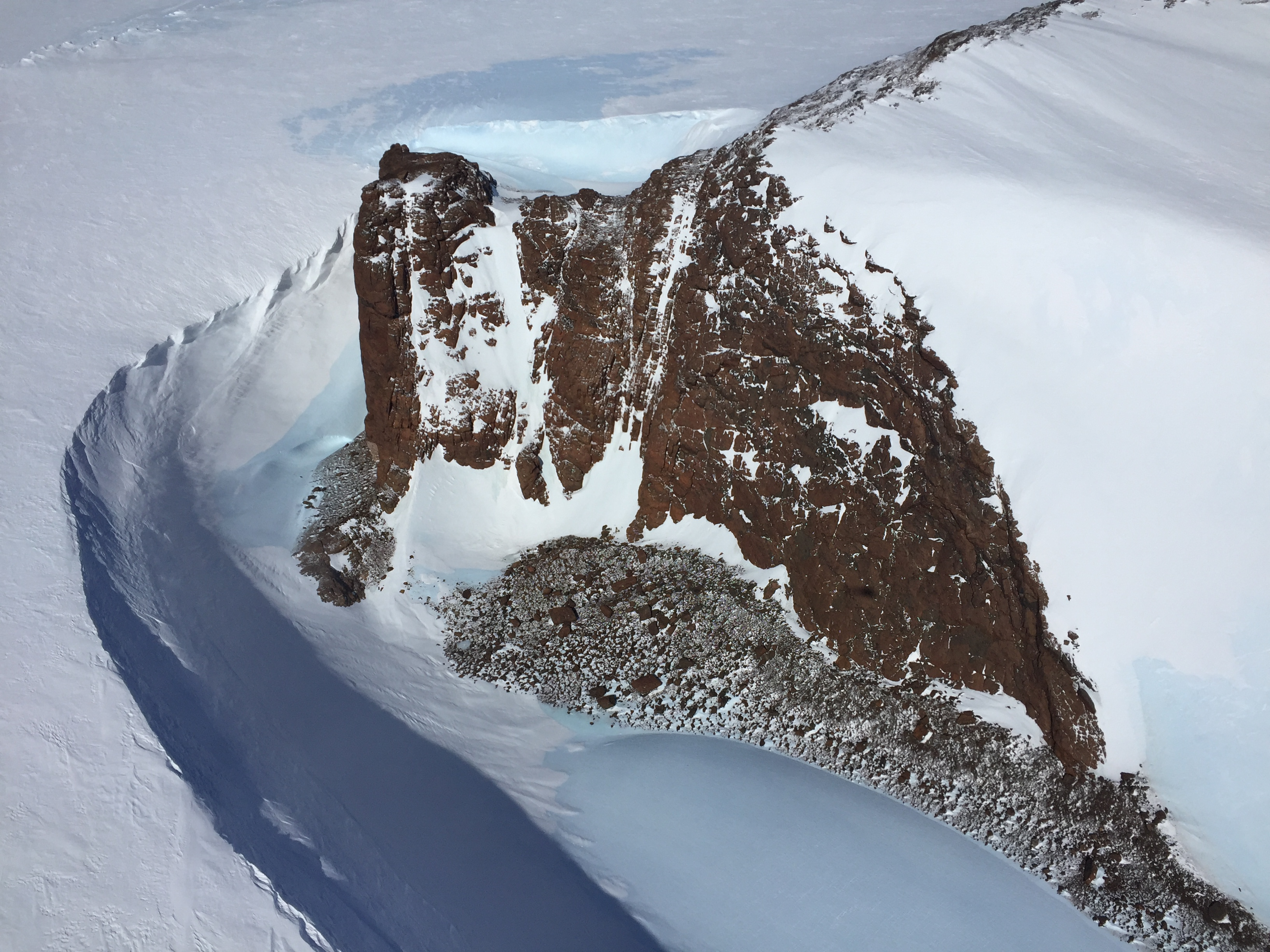 Cliff face at the northern tip of Mount Brown East Antarctica. A wind scour around the feature exposes rock which is below the altitude of the surrounding plateau.. Taken on the 6th of February, 2020.